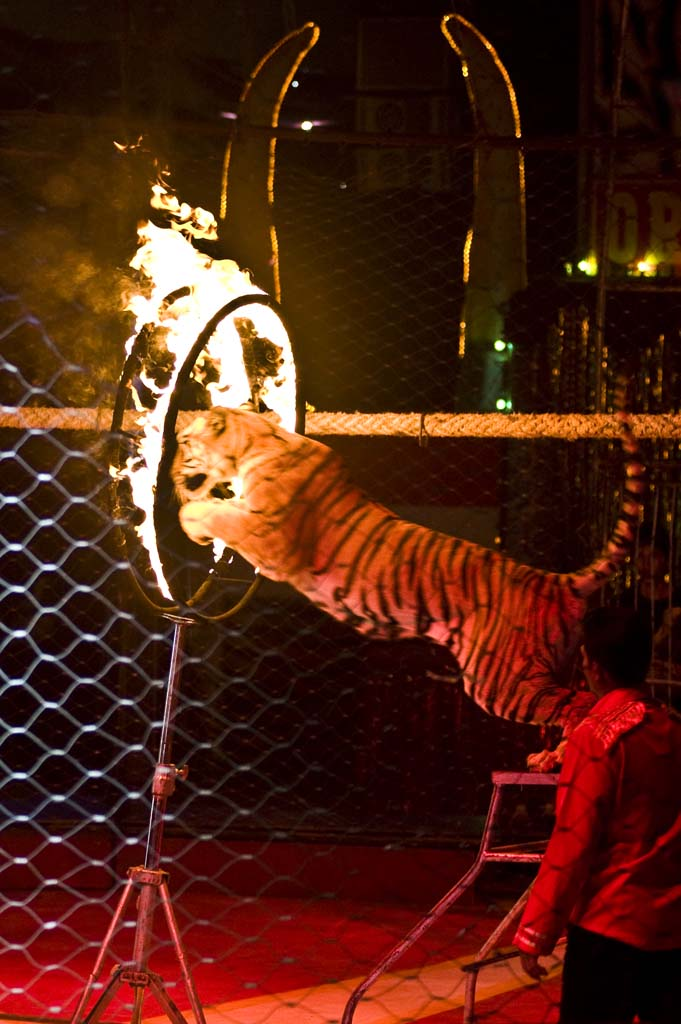 Tiger jumping through flaming hoops, Oriental Circus, BSD City, Indonesia